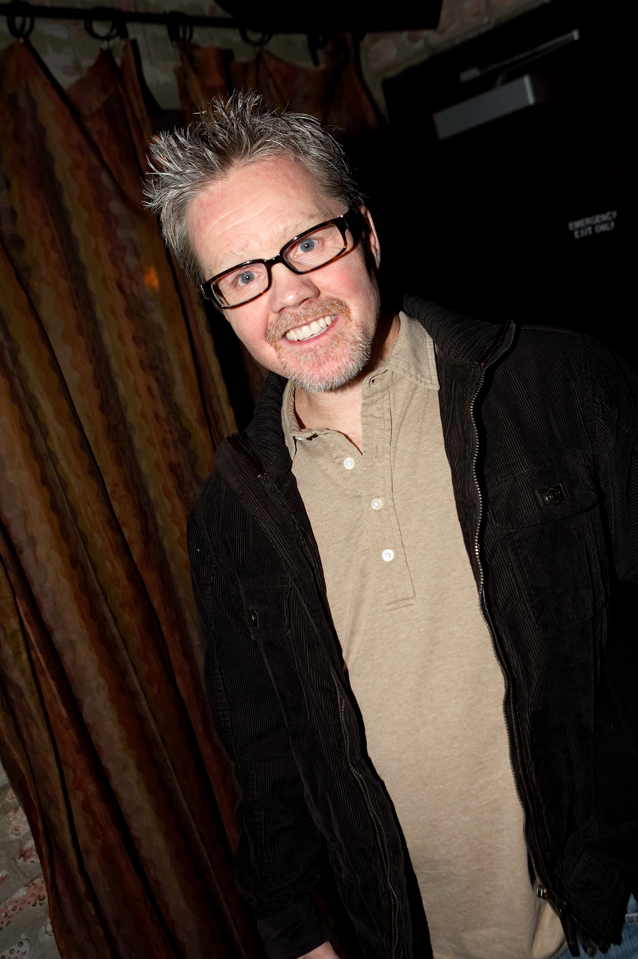 Freddie Roach at the Pacquiao birthday Christmas party at J Lounge. Los Angeles, CA.